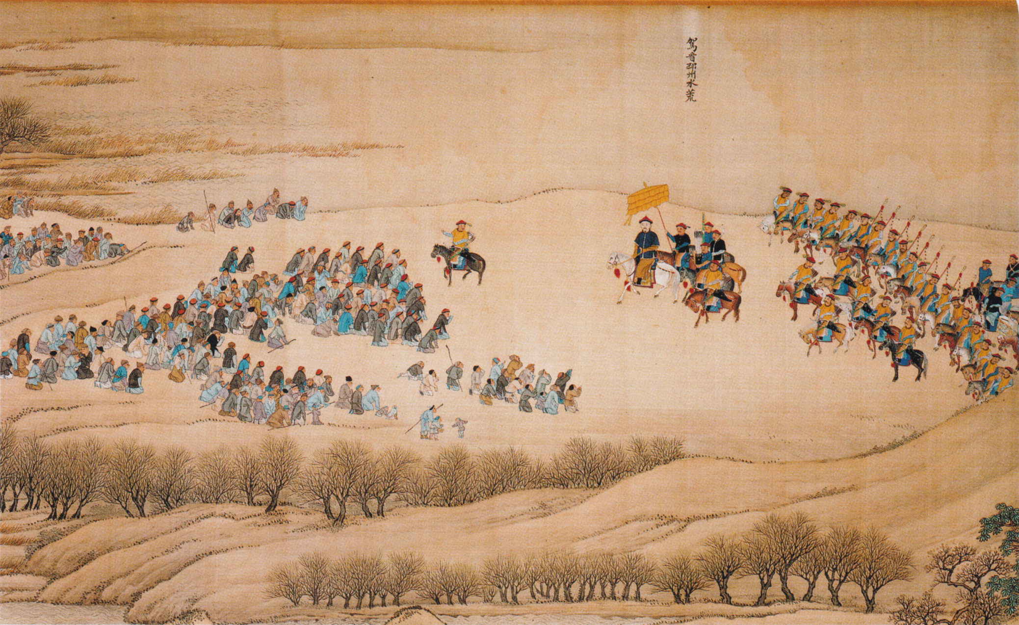 Emperor Kangxi Southern Inspection Tour, 4th scroll, (detail)